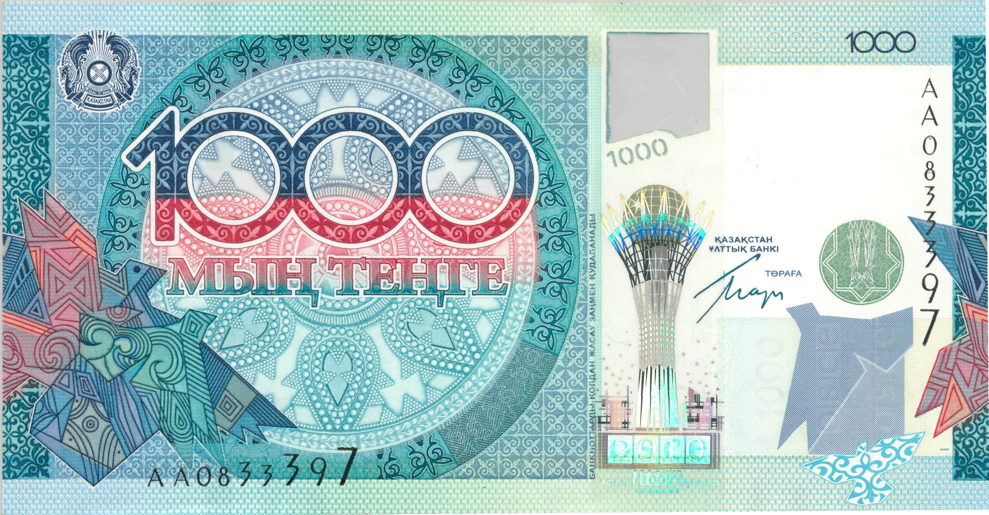 The averse side of 1000 tenge commemorative banknote for 2010 year - the Chairmanship of Kazakhstan in OSCE